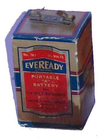 Eveready #742 1½ Volts, Portable "A" Battery for 1.4 Volt receivers Marked on bottom: For best results put in service before Feb. 1943 L 2.5 inch (63.5mm), W 2.5 inch (63.5mm), H 4 inch (101.6mm). Weight 1 lb 4.5 ounce (581gm). I took this photo, then edited out background with Adobe Photoshop Elements 2.0.